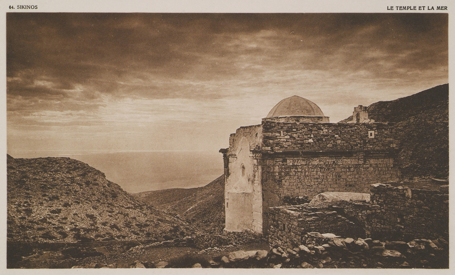 Frederic Daniel Boissonnas Baud-Bovy. Des Cyclades en Crète au gré du vent, Geneva, Boissonnas & Co, 1919